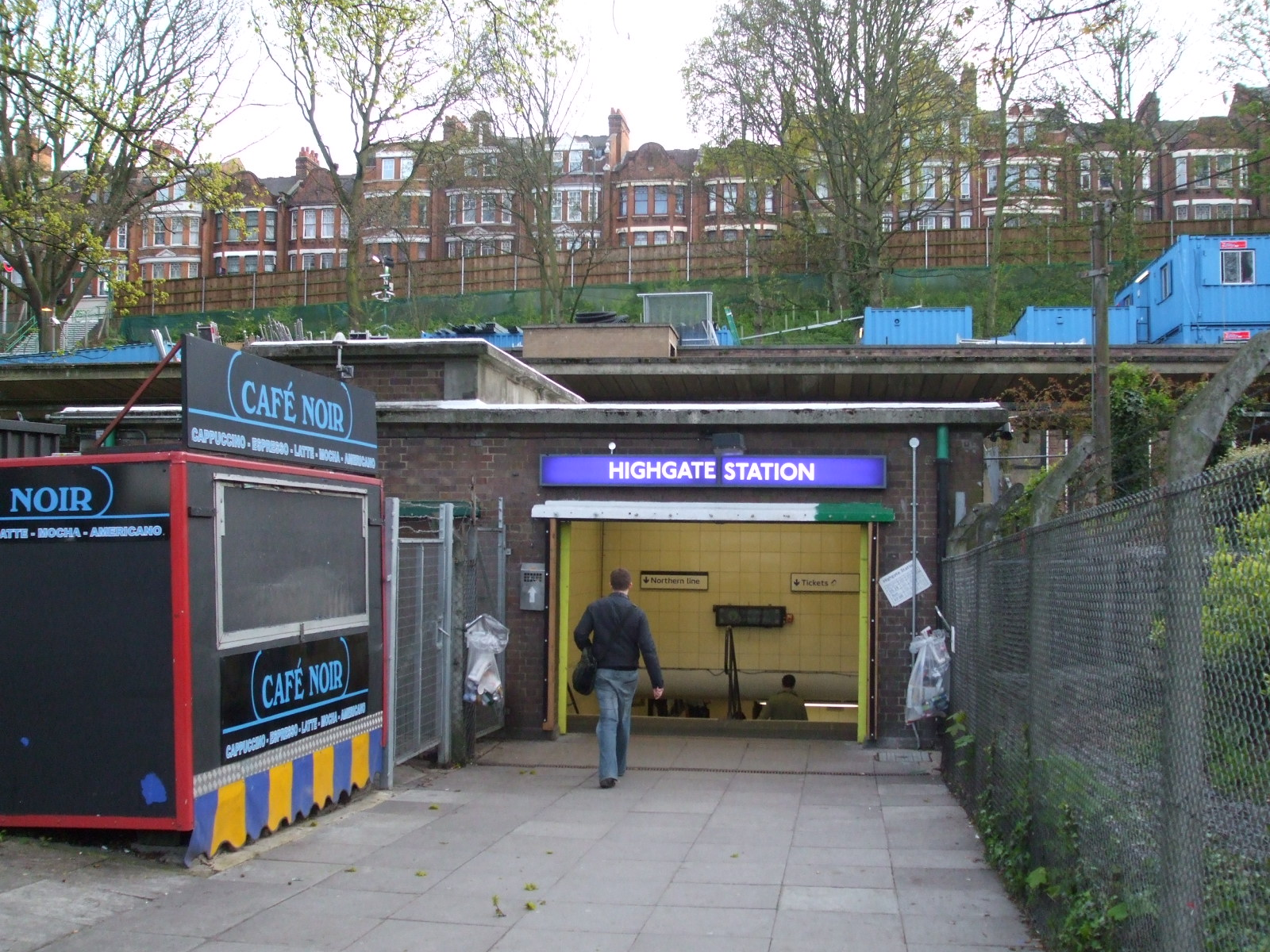 Highgate tube station eastern entrance on Priory Gardens. Note remains of the high-level station behind the entrance, and Archway Road (the A1) on the embankment in the background.